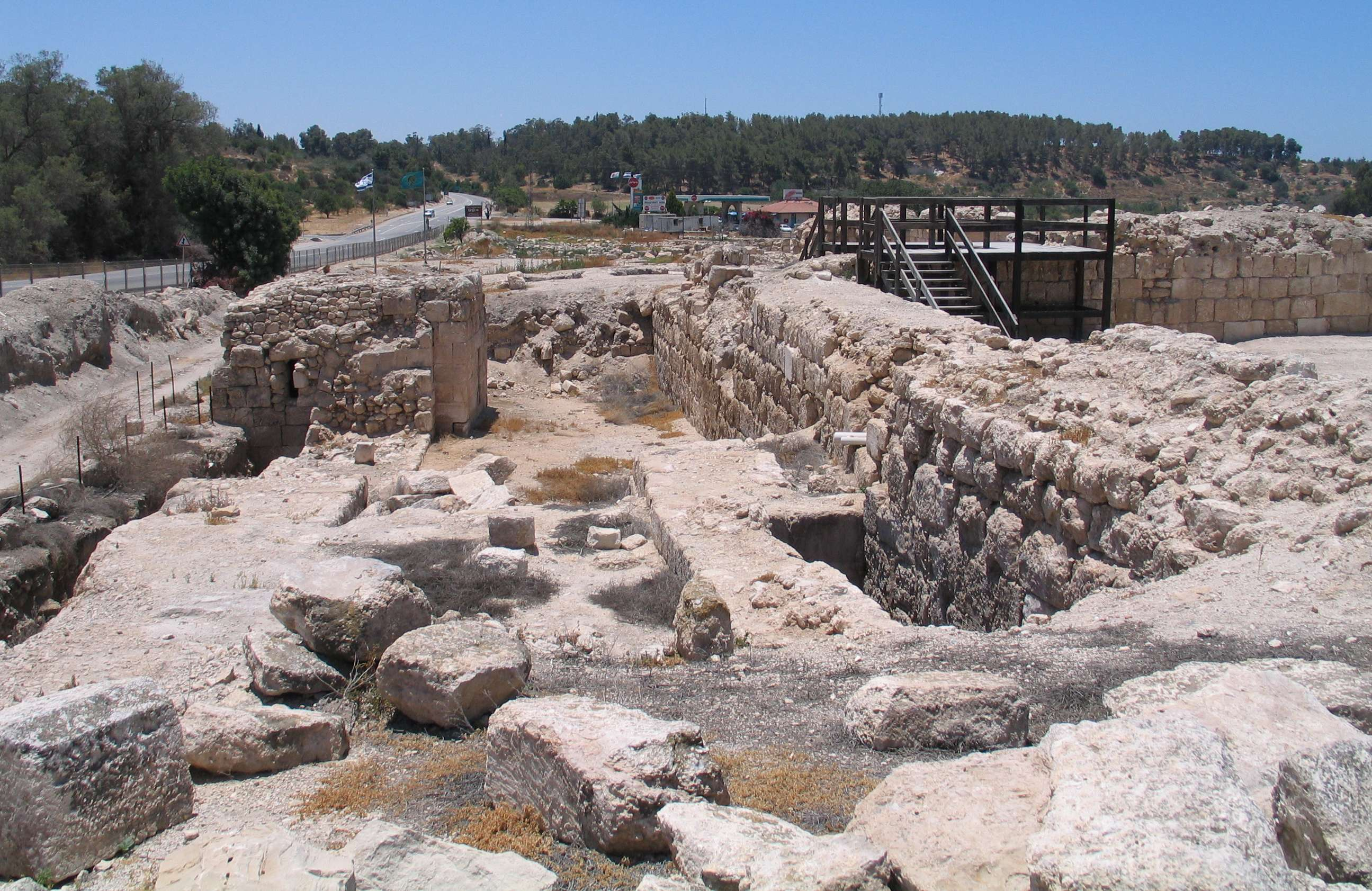 Beyt Govrin, Israel.